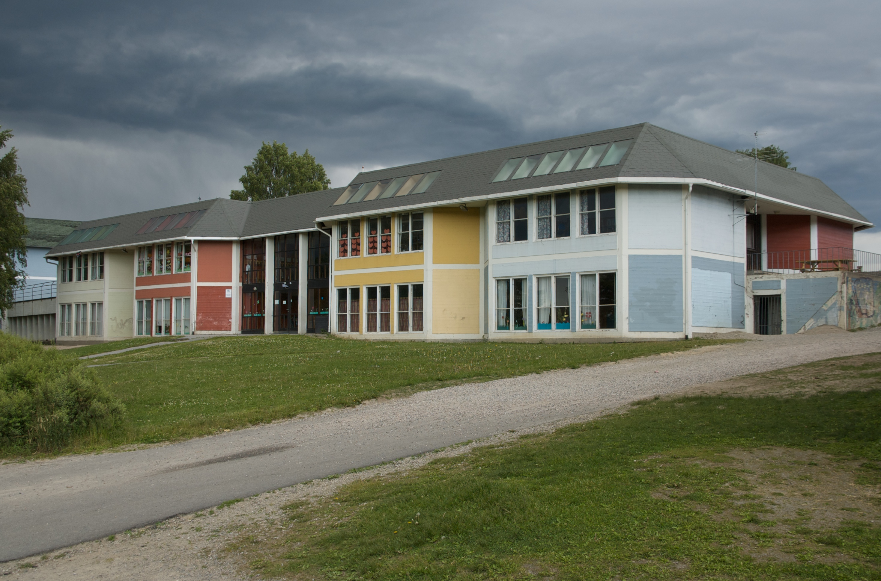 Lunde barneskole, a school in Skien, Norway.